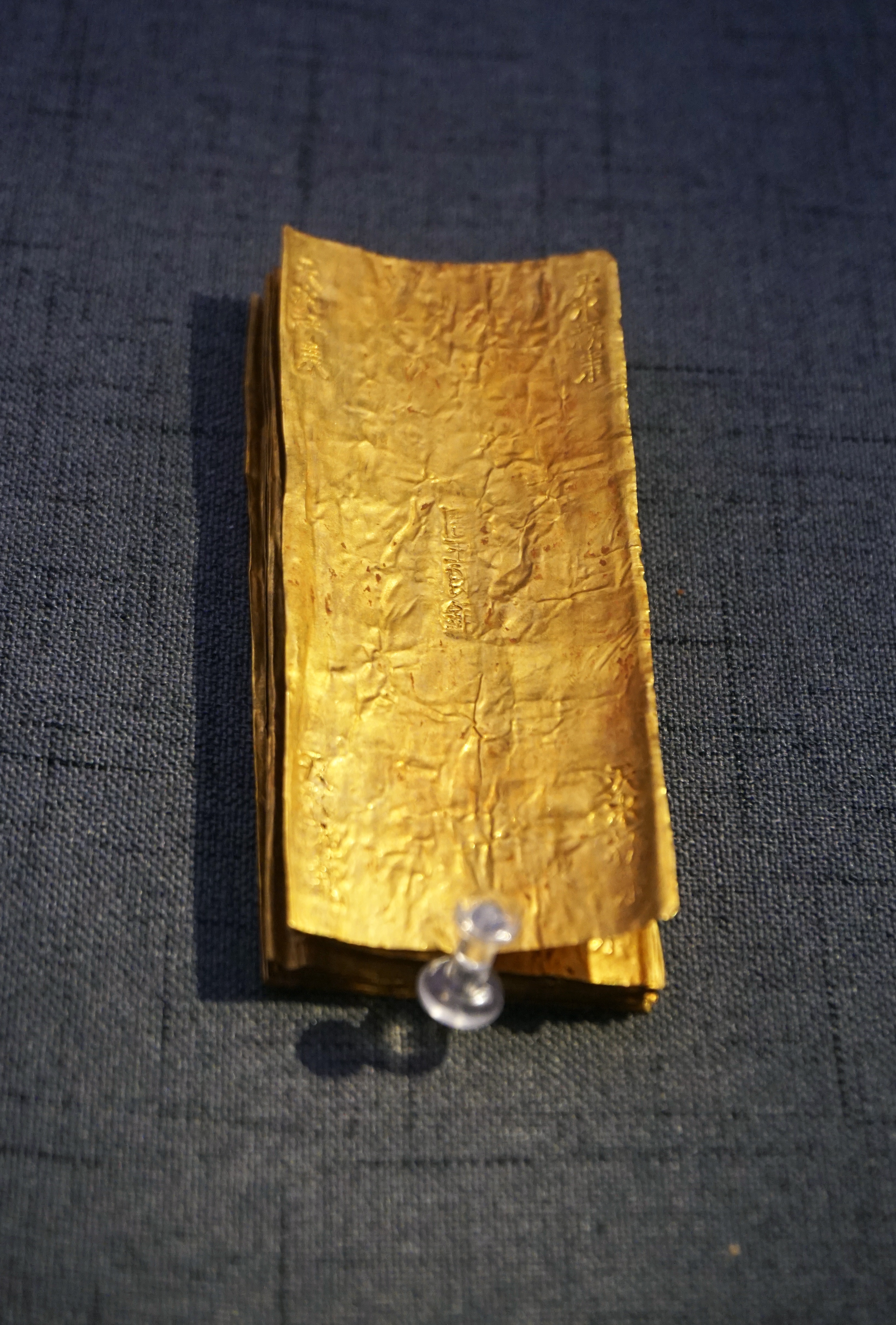 Gold leaves. The Southern Song Dynasty.